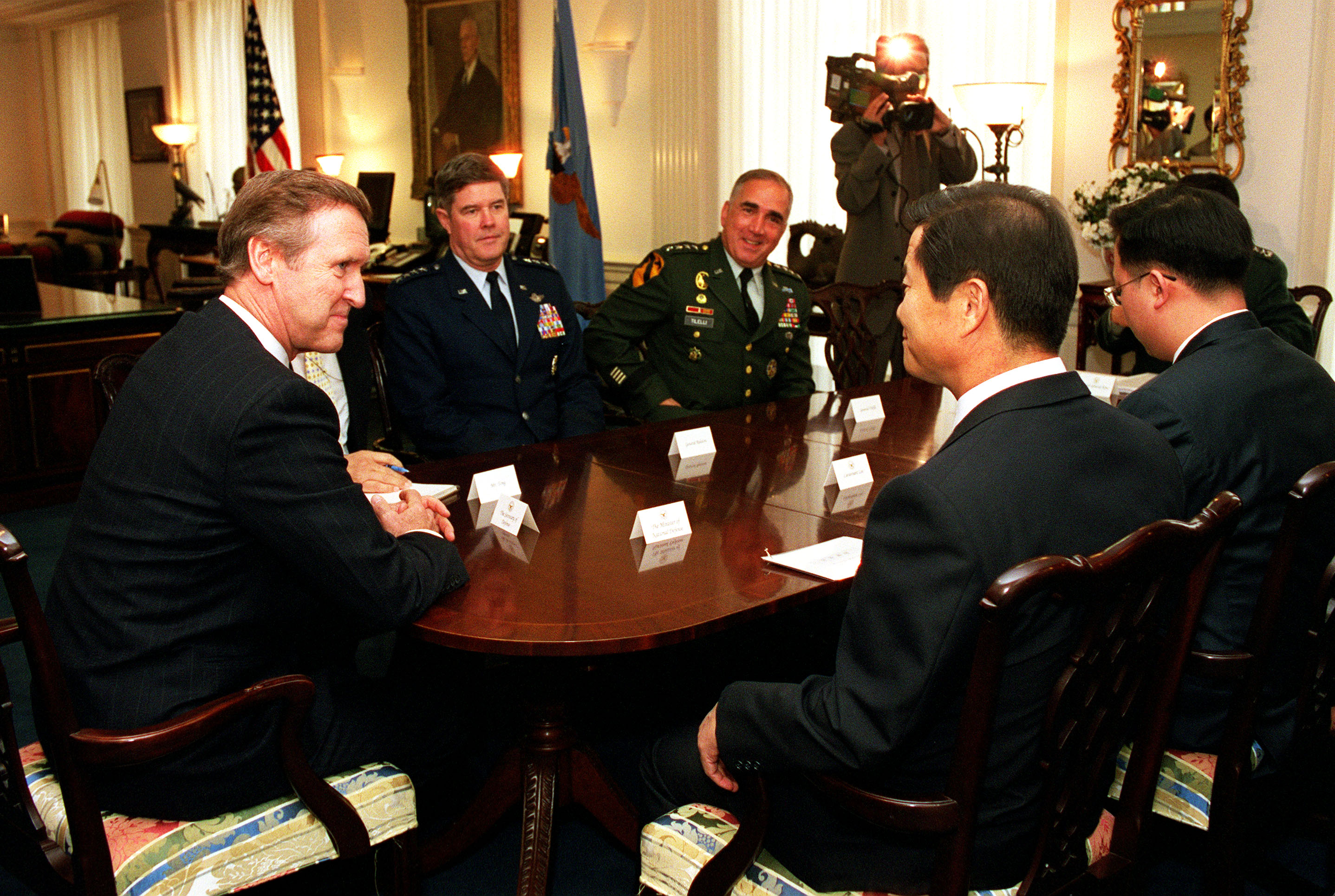 Secretary of Defense William S. Cohen (left) meets with South Korean Minister of National Defense Cho Song-tae (2nd from right) in Cohen's Pentagon office on Nov. 23, 1999. Cohen and Cho are meeting briefly before starting the 31st Annual U.S.-Republic of Korea Security Consultative Meeting where they will discuss issues relating to the peace and security of the Korean Peninsula. Vice Chairman of the Joint Chiefs of Staff Gen. Joseph Ralston (2nd from left), U.S. Air Force and Commander in Chief of the United Nations Command and the Combined Forces Command Gen. John H. Tilelli Jr. (3rd from left), U.S. Army, joined Cohen, Cho and their counterparts in the meeting. Minister Cho's interpreter Lt. Lee Jae-myong is at the far right.